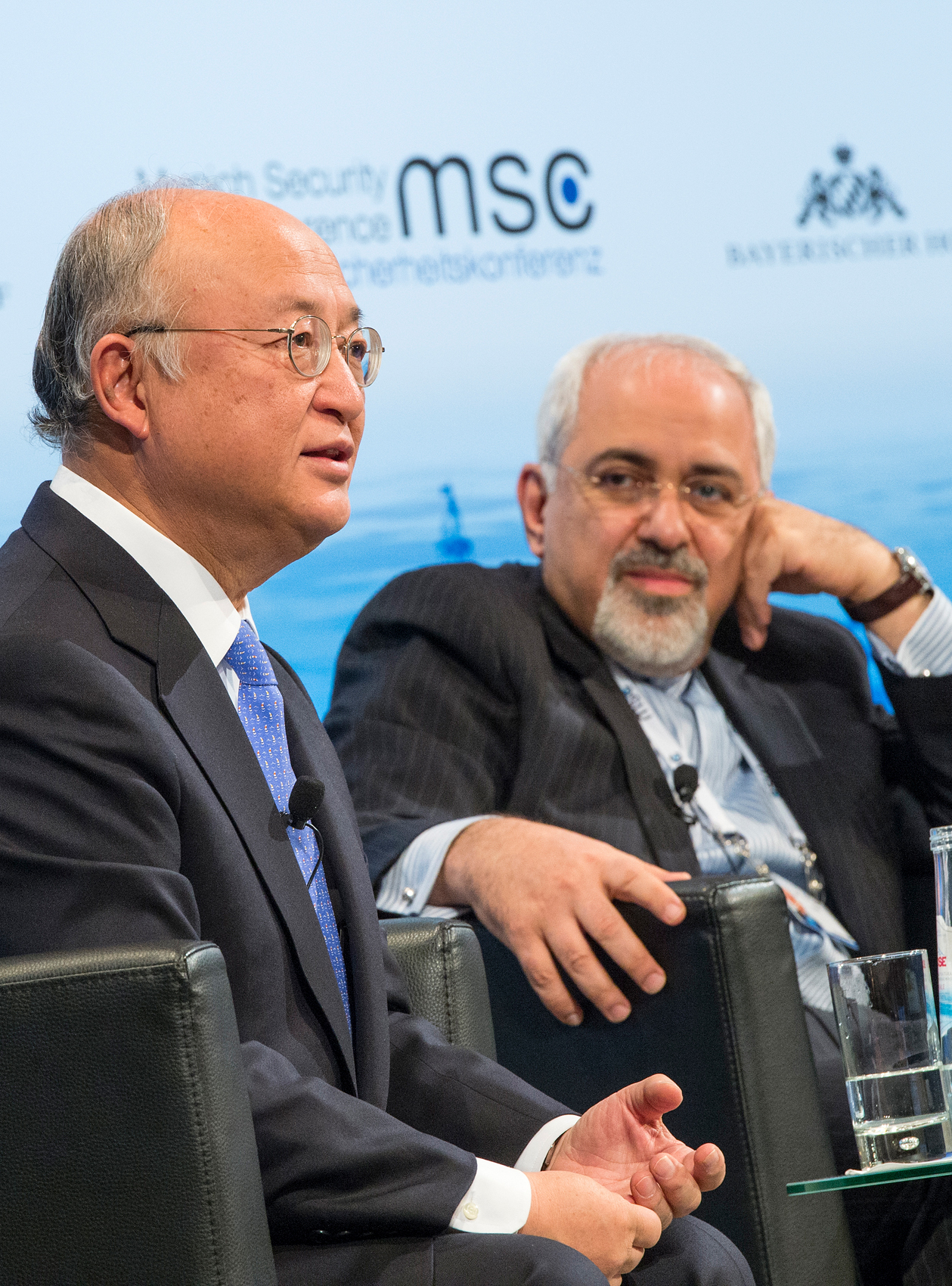 50th Munich Security Conference 2014: Yukiya Amano and Mohamad Javad Zarif: Yukiya Amano (Director General, International Atomic Energy Agency) and Mohamad Javad Zarif (Minister of Foreign Affairs, Islamic Republic of Iran).